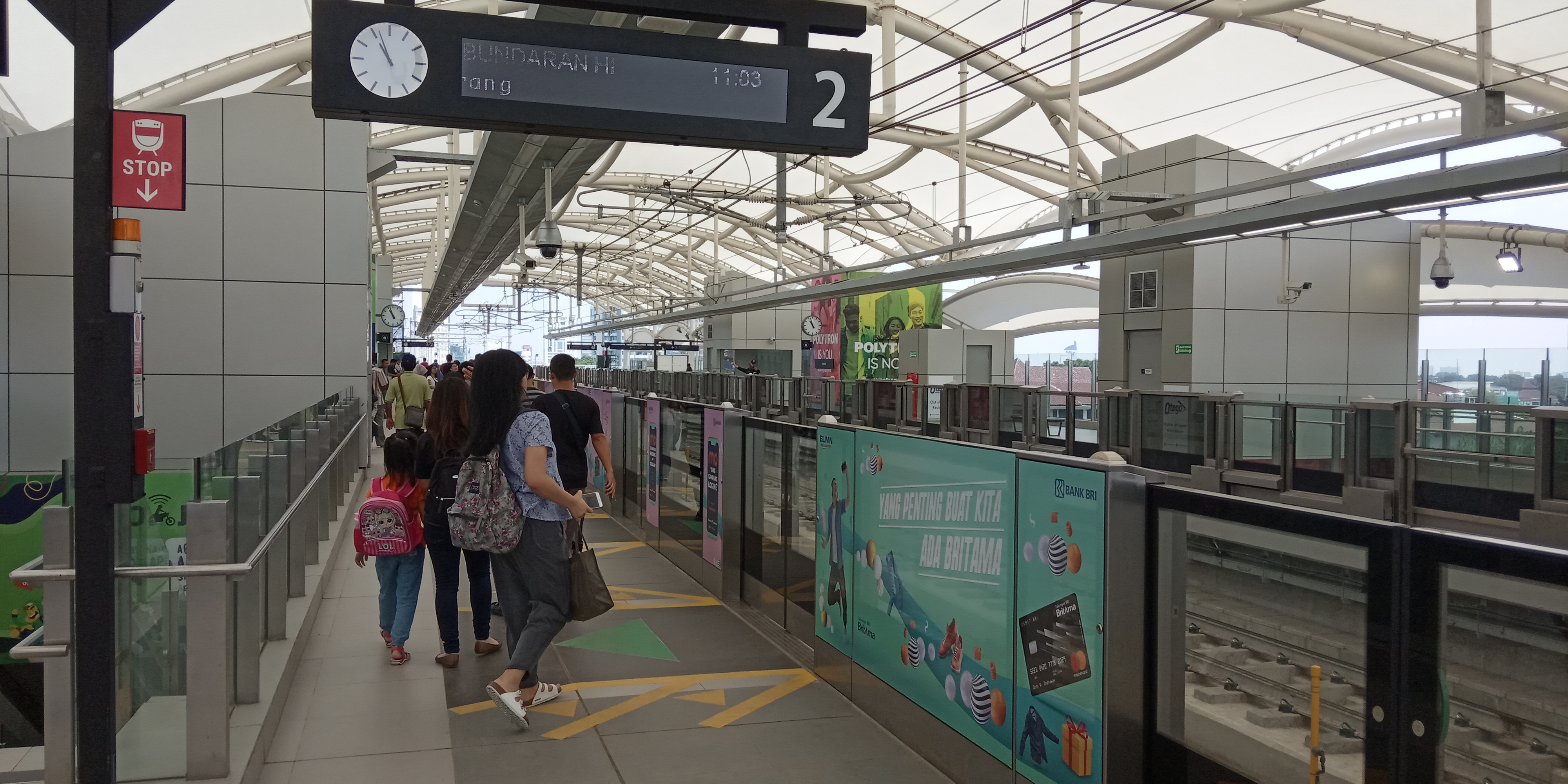 This photo taken at Fatmawati MRT Station on 3 April 2019